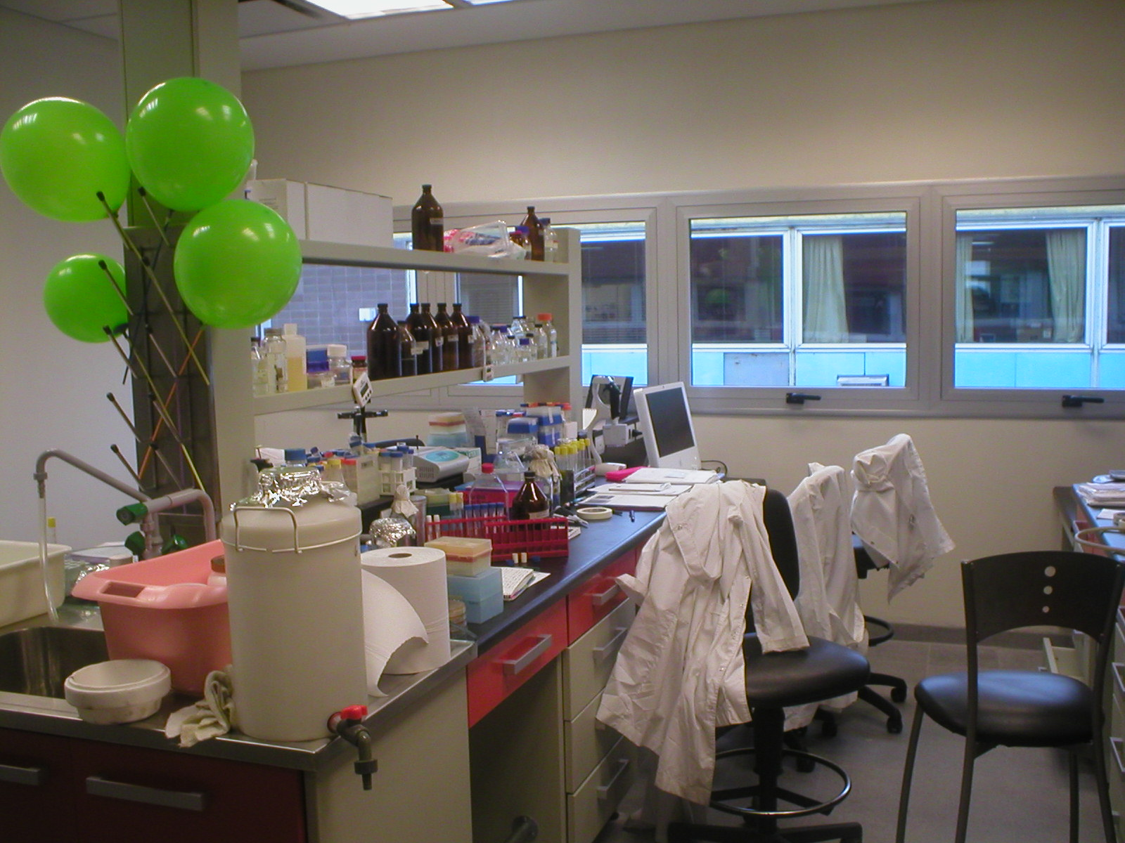 Tipical molecular biology wetlab bench. Taken at INTA (Argentina)